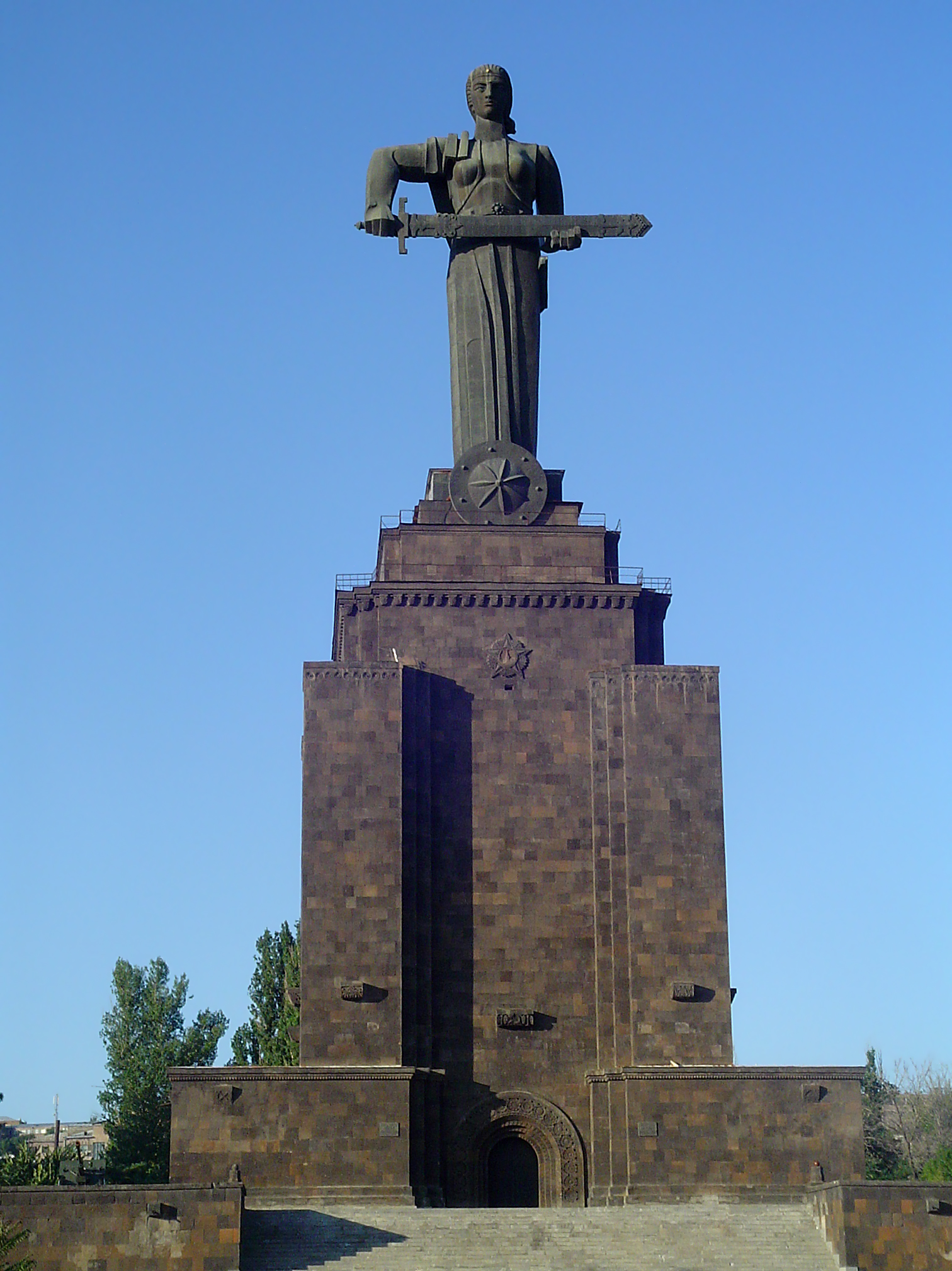 Mother Armenia